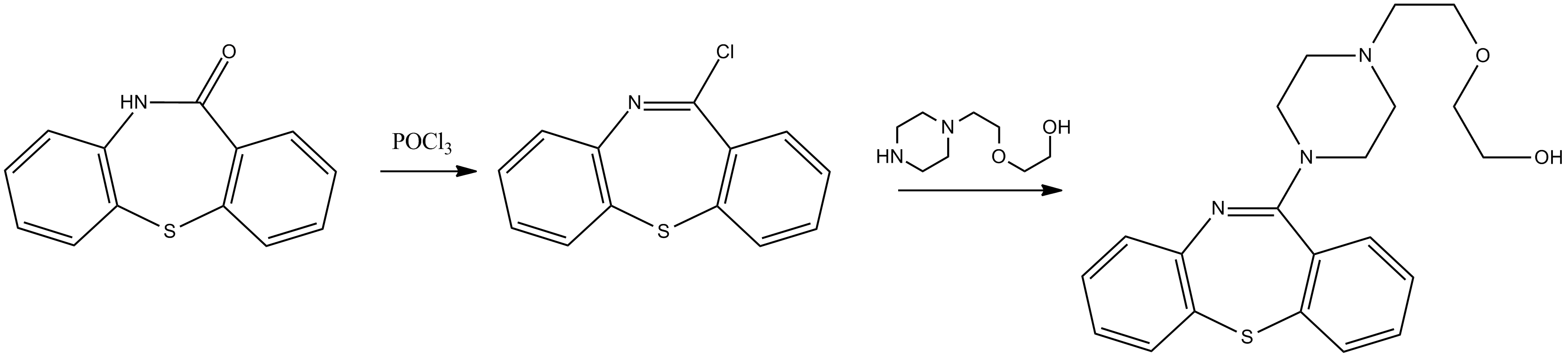 Warawa, E. J.; Migler, B. M.; 1988, U.S. Patent 4,879,288.